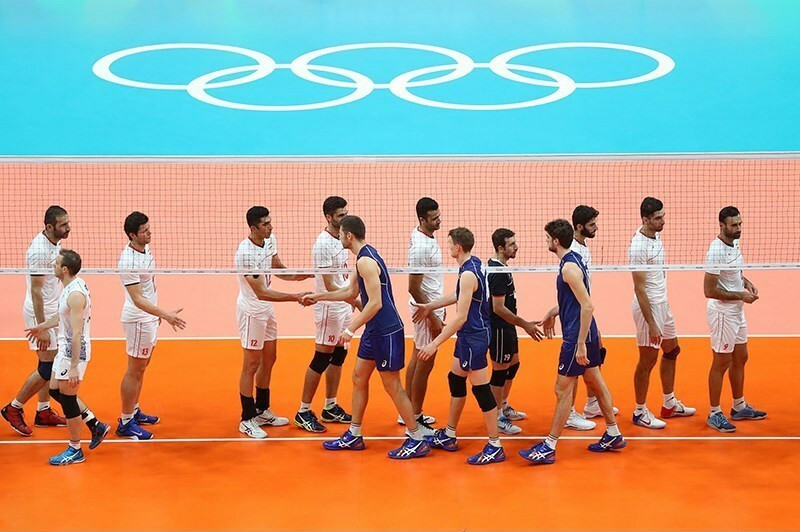 Volleyball match between national teams of Ukraine and Italy at the Olympic Games in 2016